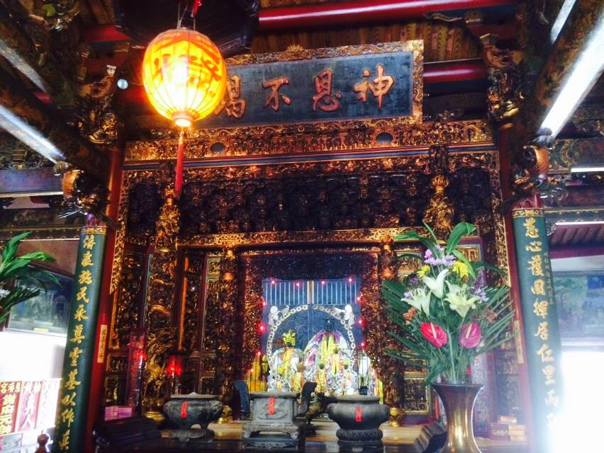 Main-Hall of the Ciji-Temple in the Xuejia District of Tainan-City (Taiwan). The temple is dedicated to Baoshengdadi (Life Protecting Emperor), Chinese god of medicine.